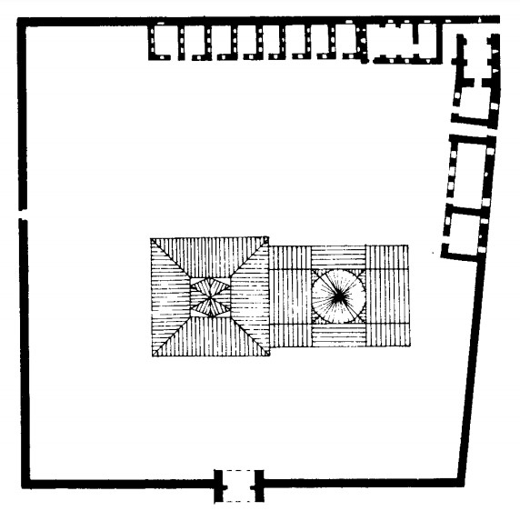 General Plan of Ganjasar monastery